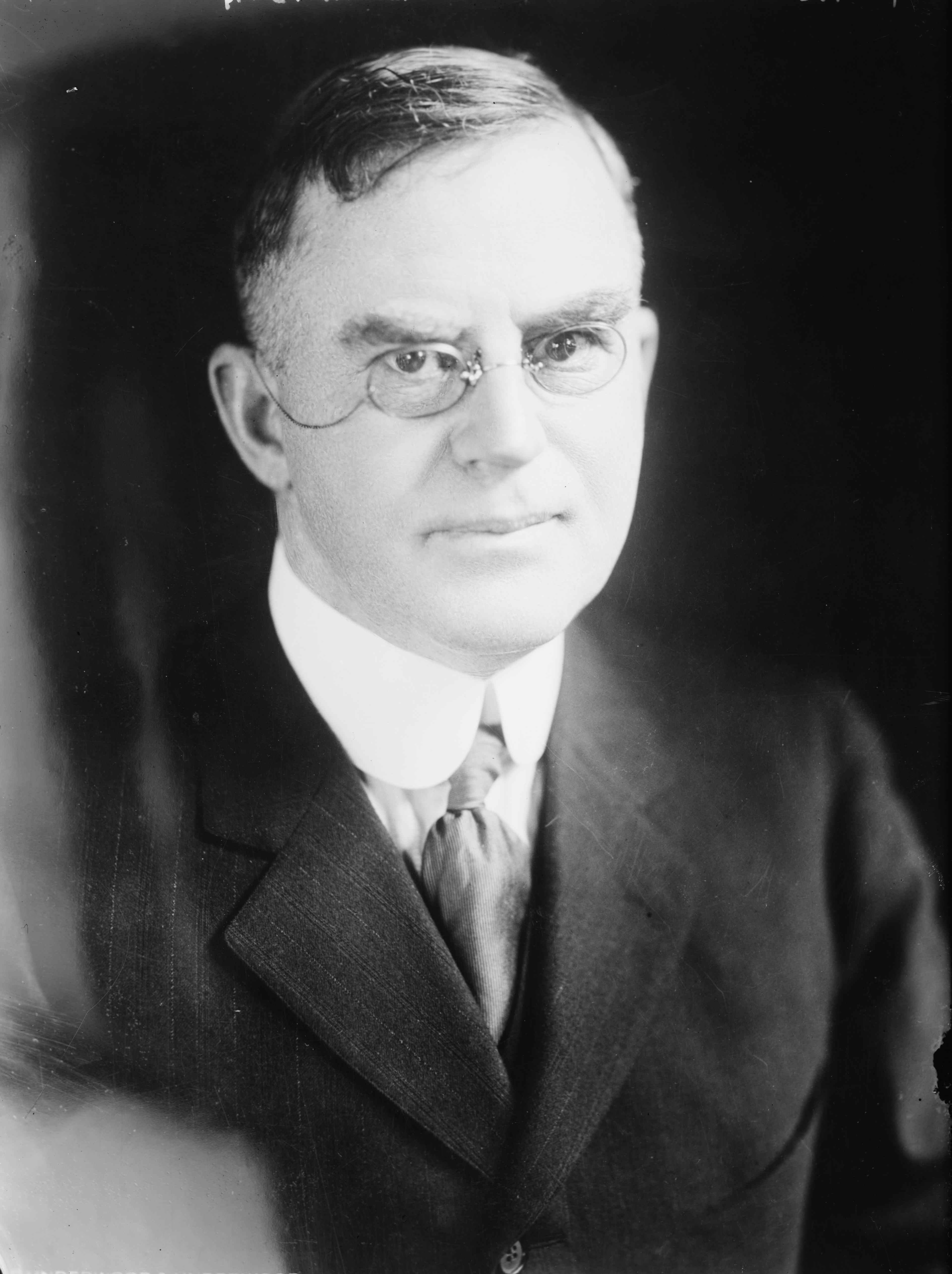 H.C. Wallace